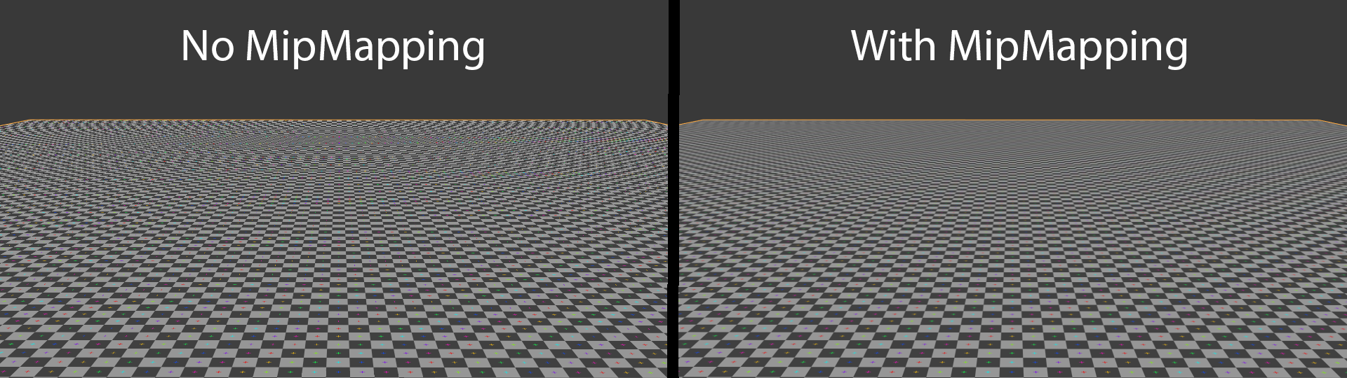 Image showing how mipmaps reduce aliasing and moiré's of textures at large distances. Some Texture filtering may also be involved, but principle is the same. Rendered out of Blender, with a 4096x4096 default UV grid.